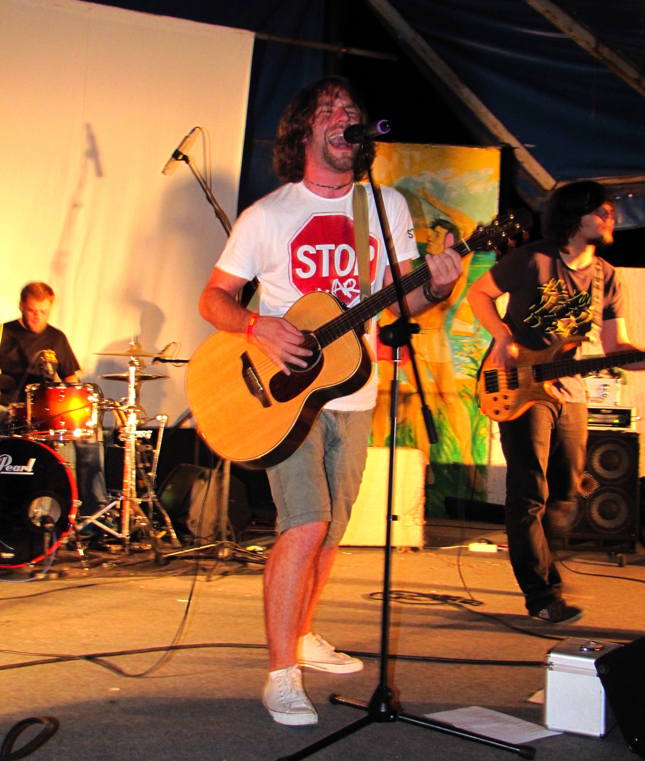 Flattus at Sunday Music Jam festival 2012